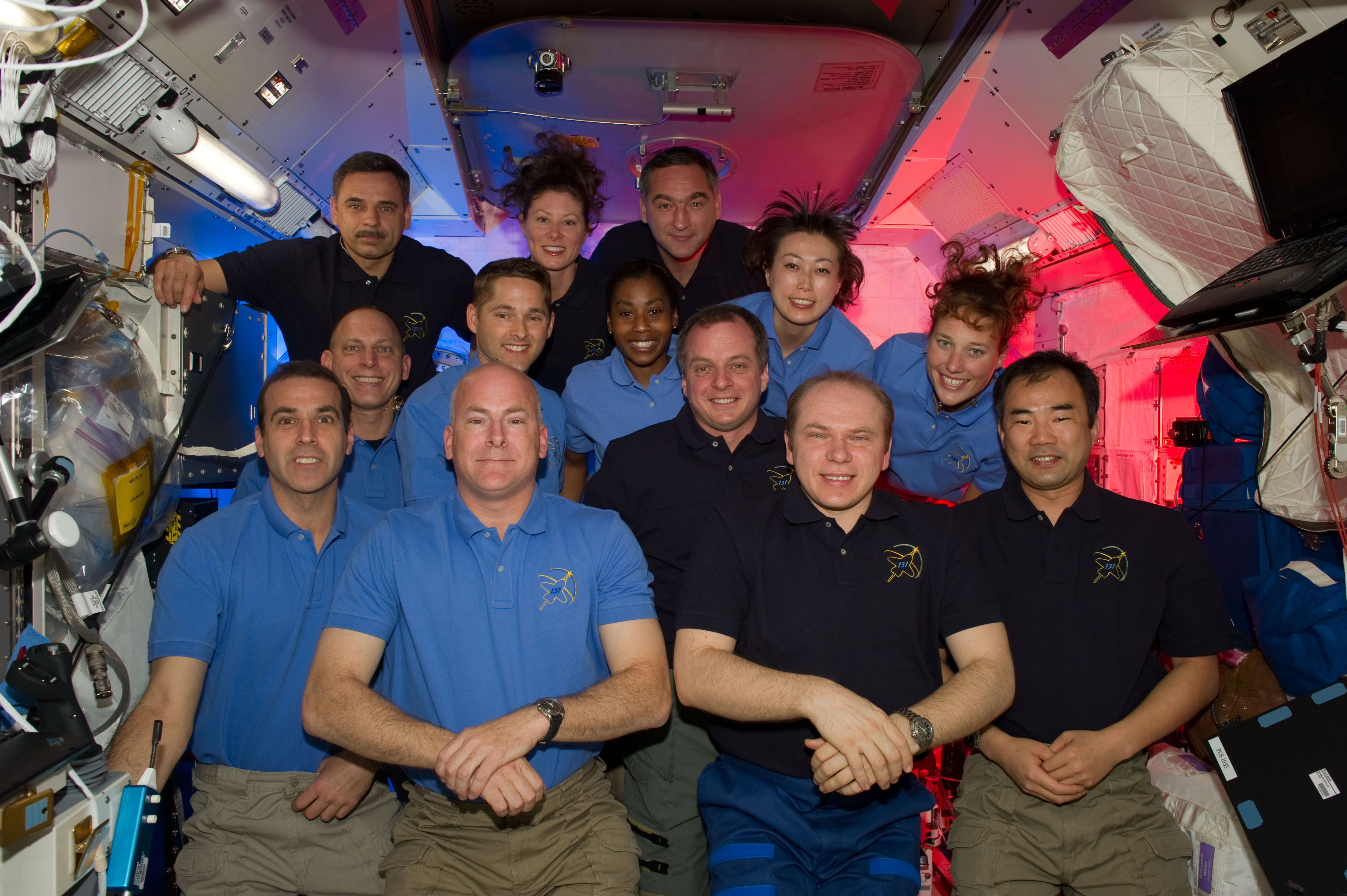 STS-131 and Expedition 23 crew members gather for a group portrait in the Kibo laboratory of the International Space Station while space shuttle Discovery remains docked with the station. STS-131 crew members pictured (light blue shirts) are NASA astronauts Alan Poindexter, commander; James P. Dutton Jr., pilot; Clayton Anderson, Rick Mastracchio, Dorothy Metcalf-Lindenburger, Stephanie Wilson and Japan Aerospace Exploration Agency astronaut Naoko Yamazaki, all mission specialists. Expedition 23 crew members pictured are Russian cosmonauts Oleg Kotov, commander; Mikhail Kornienko and Alexander Skvortsov; Japan Aerospace Exploration Agency astronaut Soichi Noguchi, and NASA astronauts T.J. Creamer and Tracy Caldwell Dyson, all flight engineers.